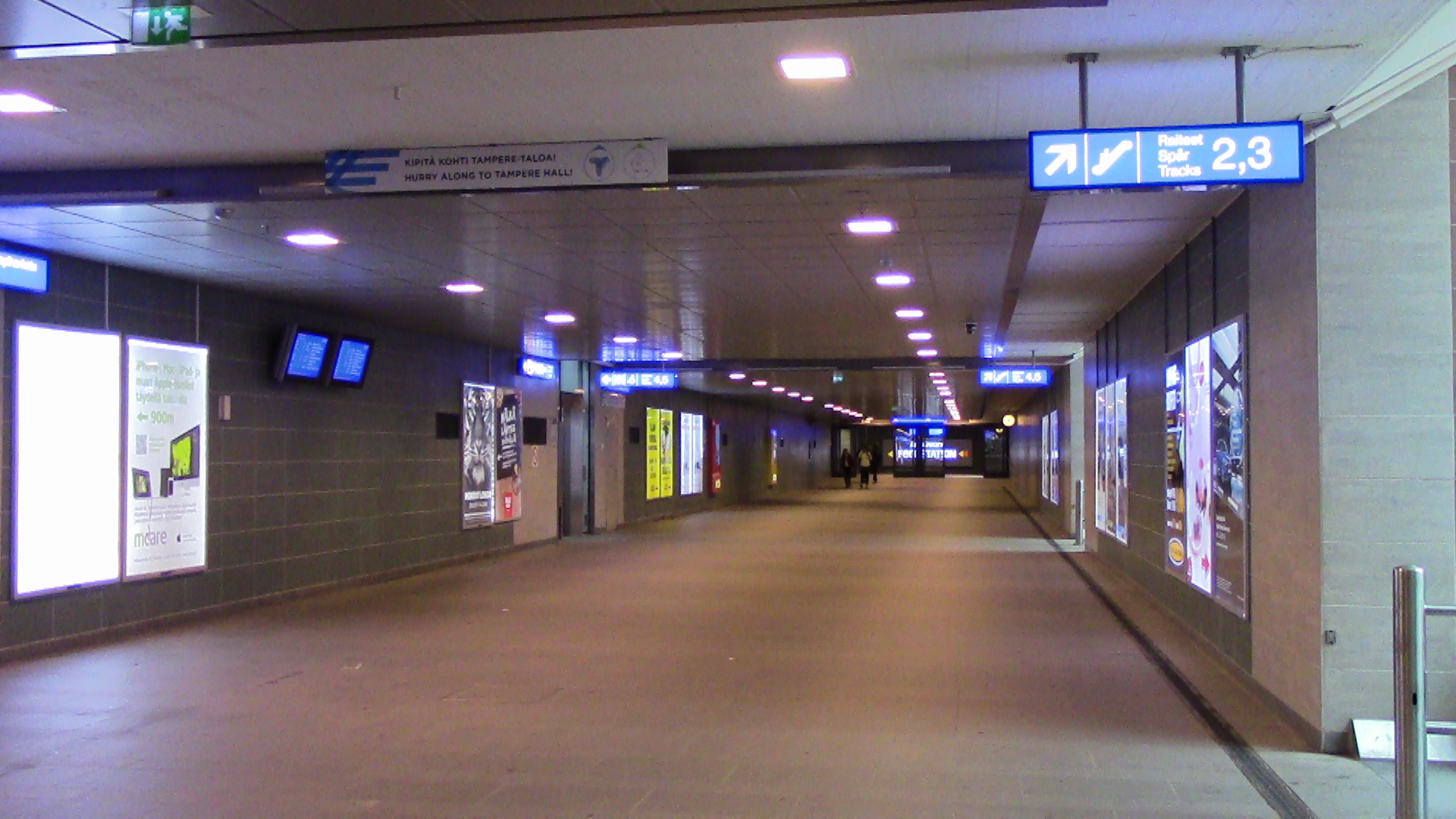 Matkakeskustunneli tunnel in Tampere, Finland. The tunnel goes under the rail yard of Tampere railway station.